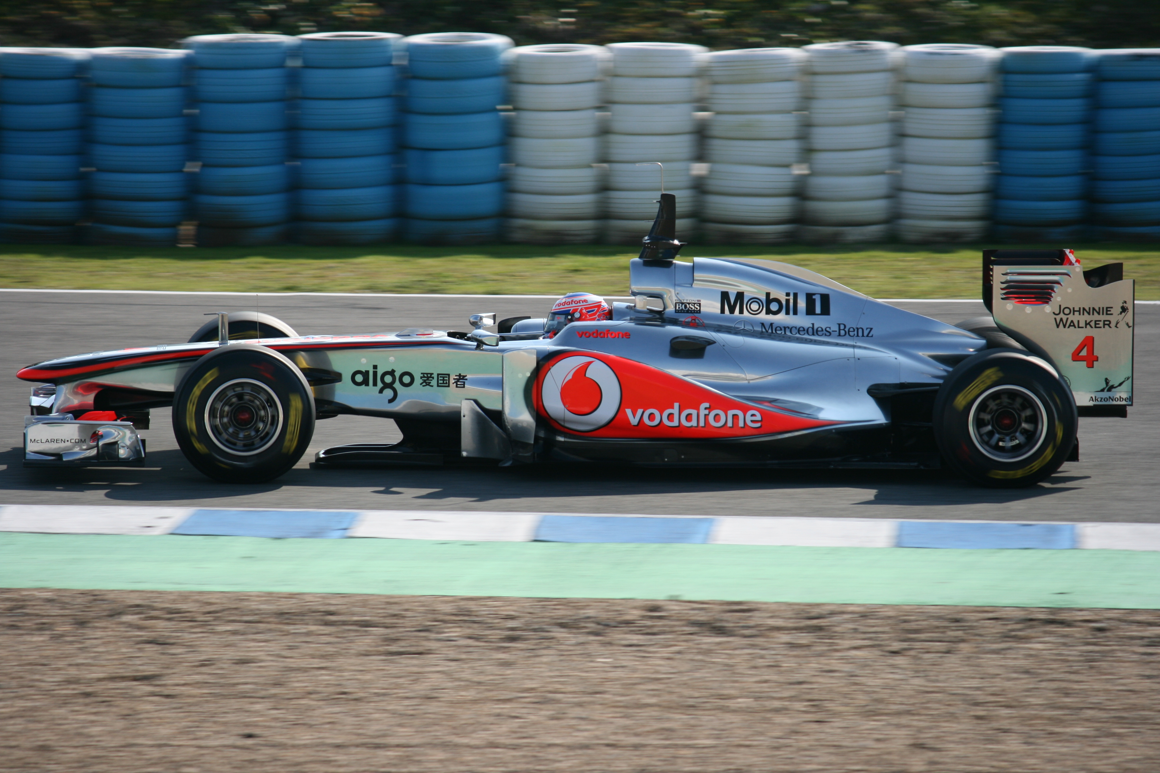 Jenson Button testing for McLaren at Jerez.